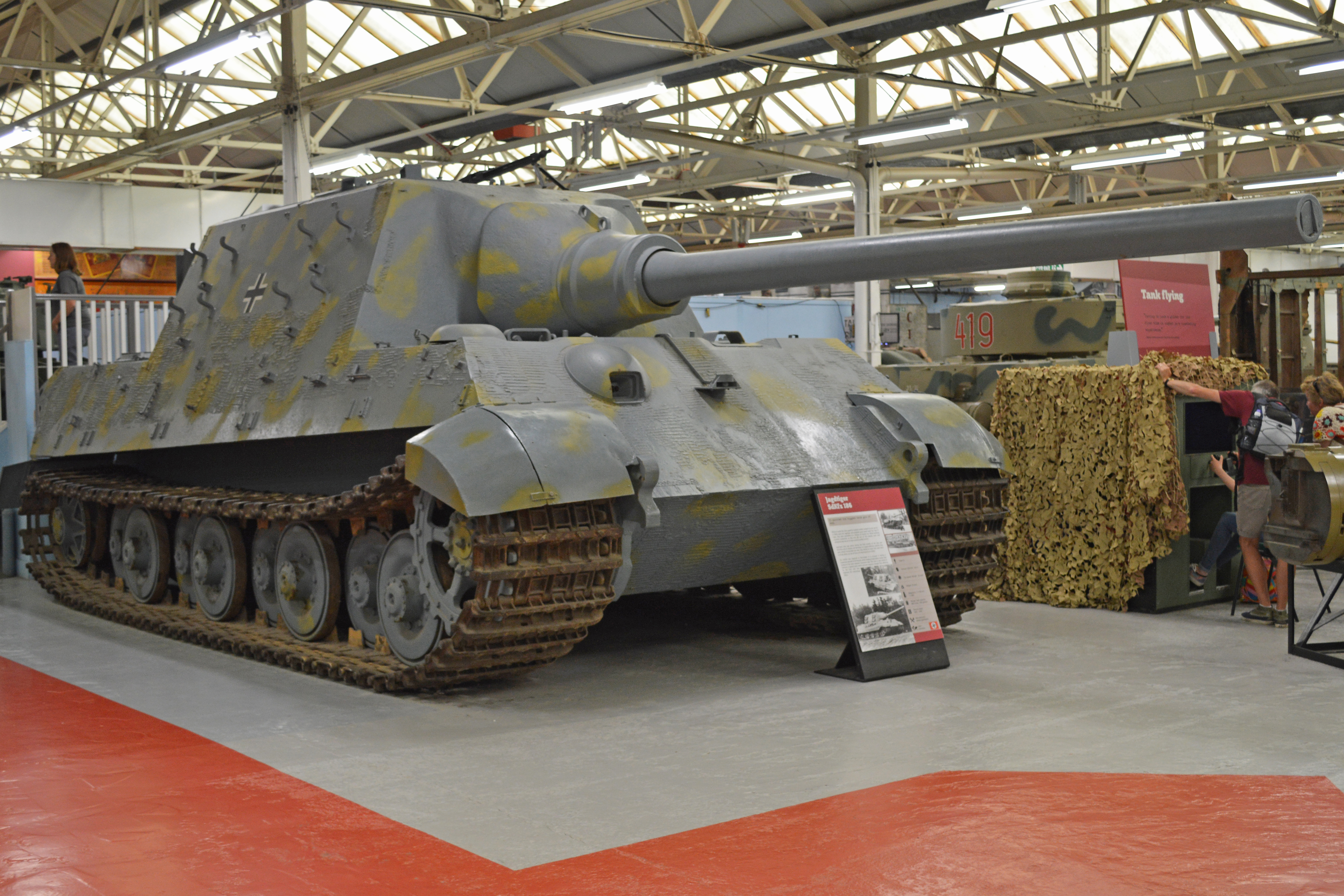 Official designation:- Panzerjäger Tiger Ausf. B Serial No 305004. Built July 1944 and now one of only three survivors from the 88 examples built. On display at The Tank Museum, Bovington, Dorset, UK. 26th July 2016